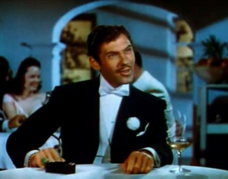 Leonid Kinskey in Down Argentine Way - trailer (cropped screenshot)